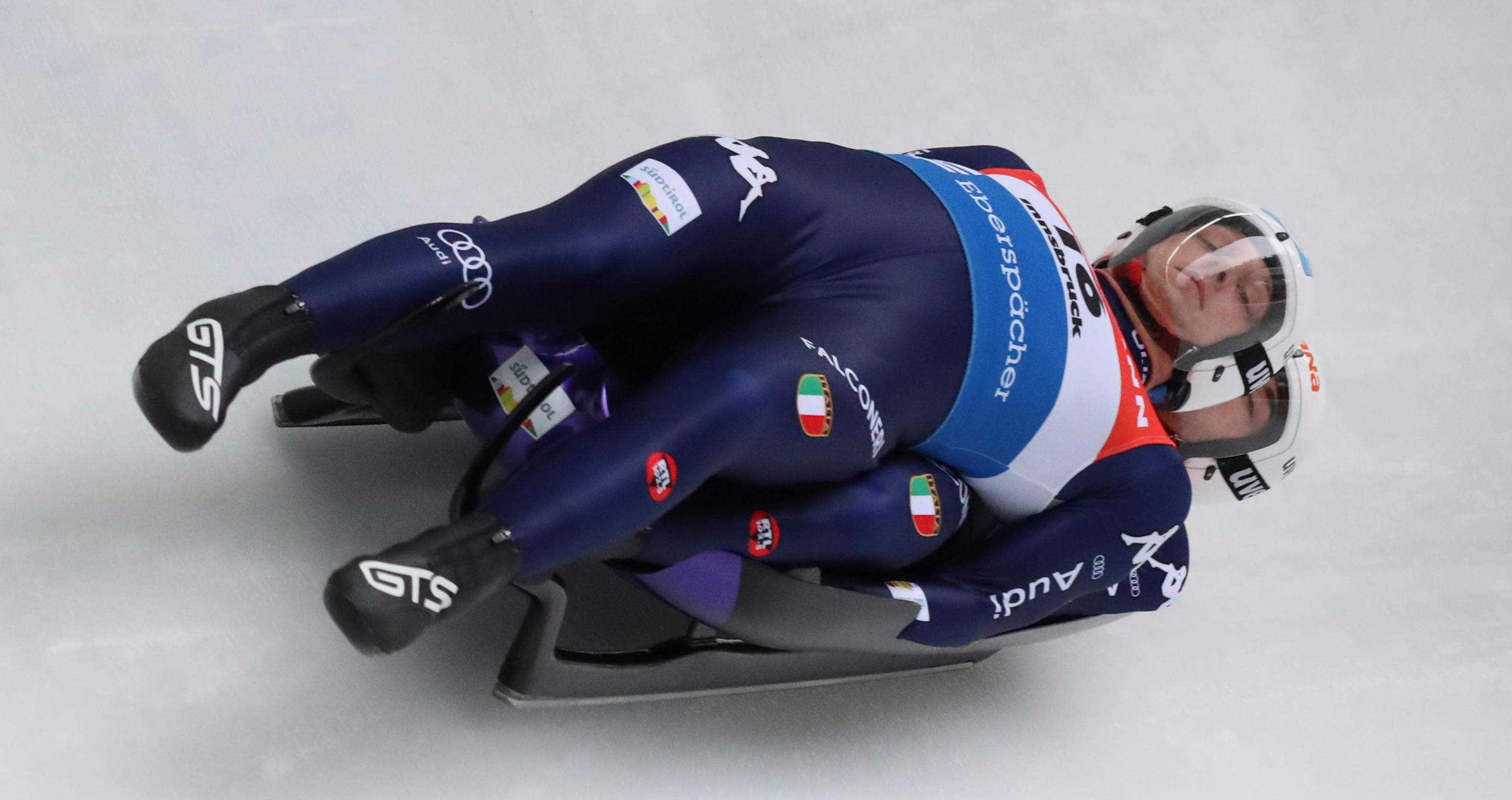 Doubles World Cup race at the 2019/20 Luge World Cup in Innsbruck-Igls